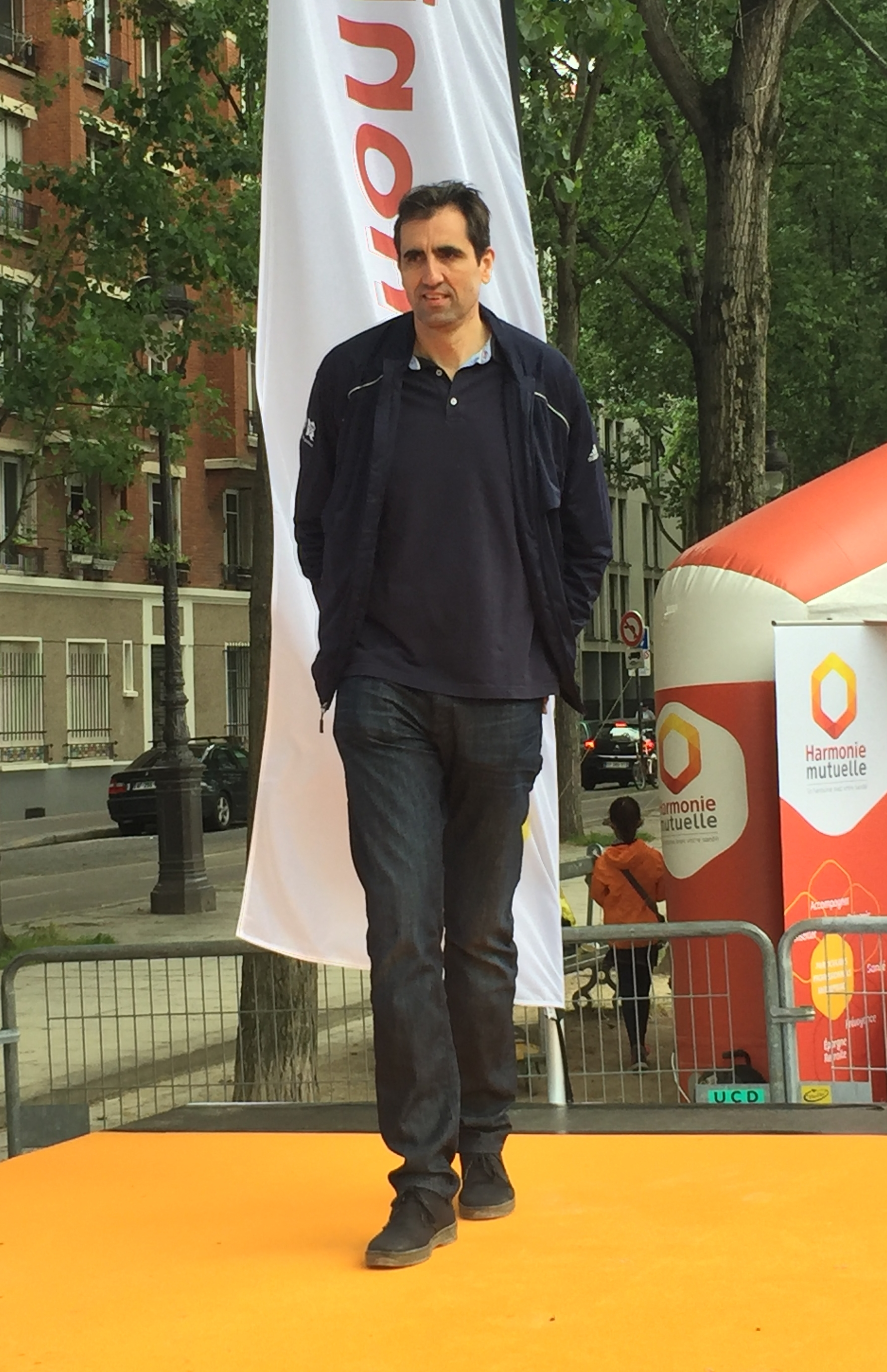 French freestyle swimmer Stéphan Caron awarding the winners of the Open Swim Stars swimming competition in Paris